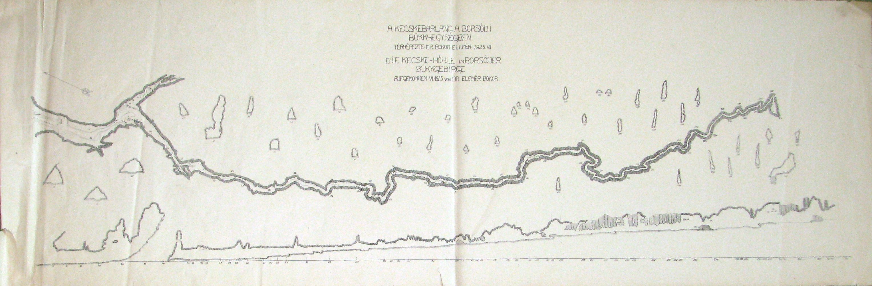 Map of Kecske Hole (Miskolc, Hungary) by Elemér Bokor in 1925.